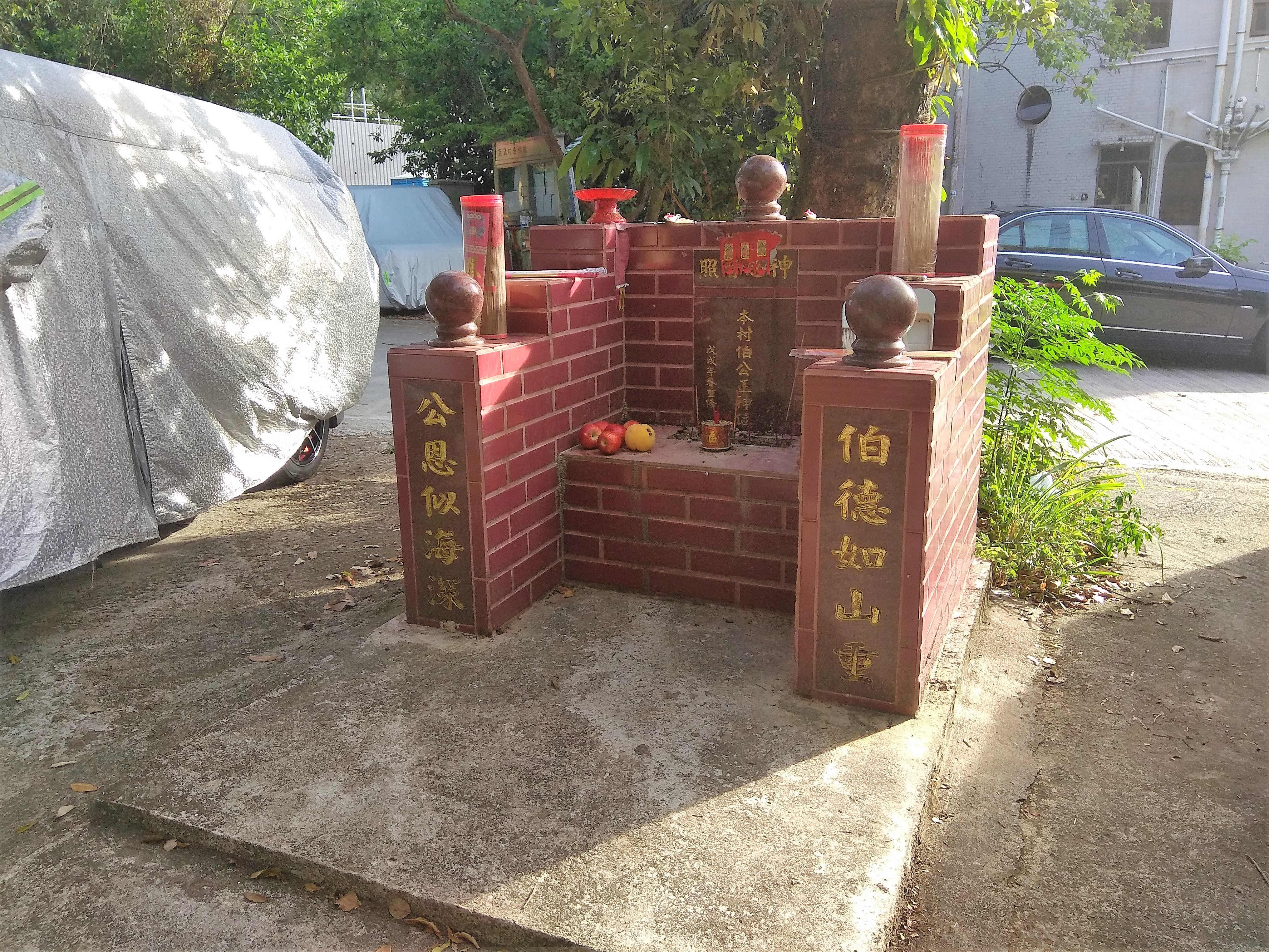 Nai Chung